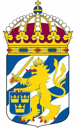 Gothenburg garrison heraldic emblema